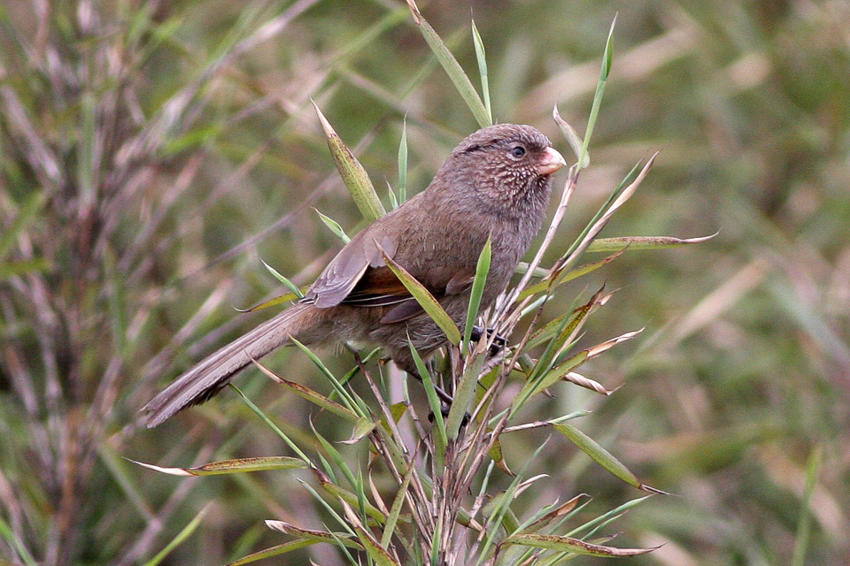 Brown Parrotbill (Cholornis unicolor) at Wawu Shan, Sichuan